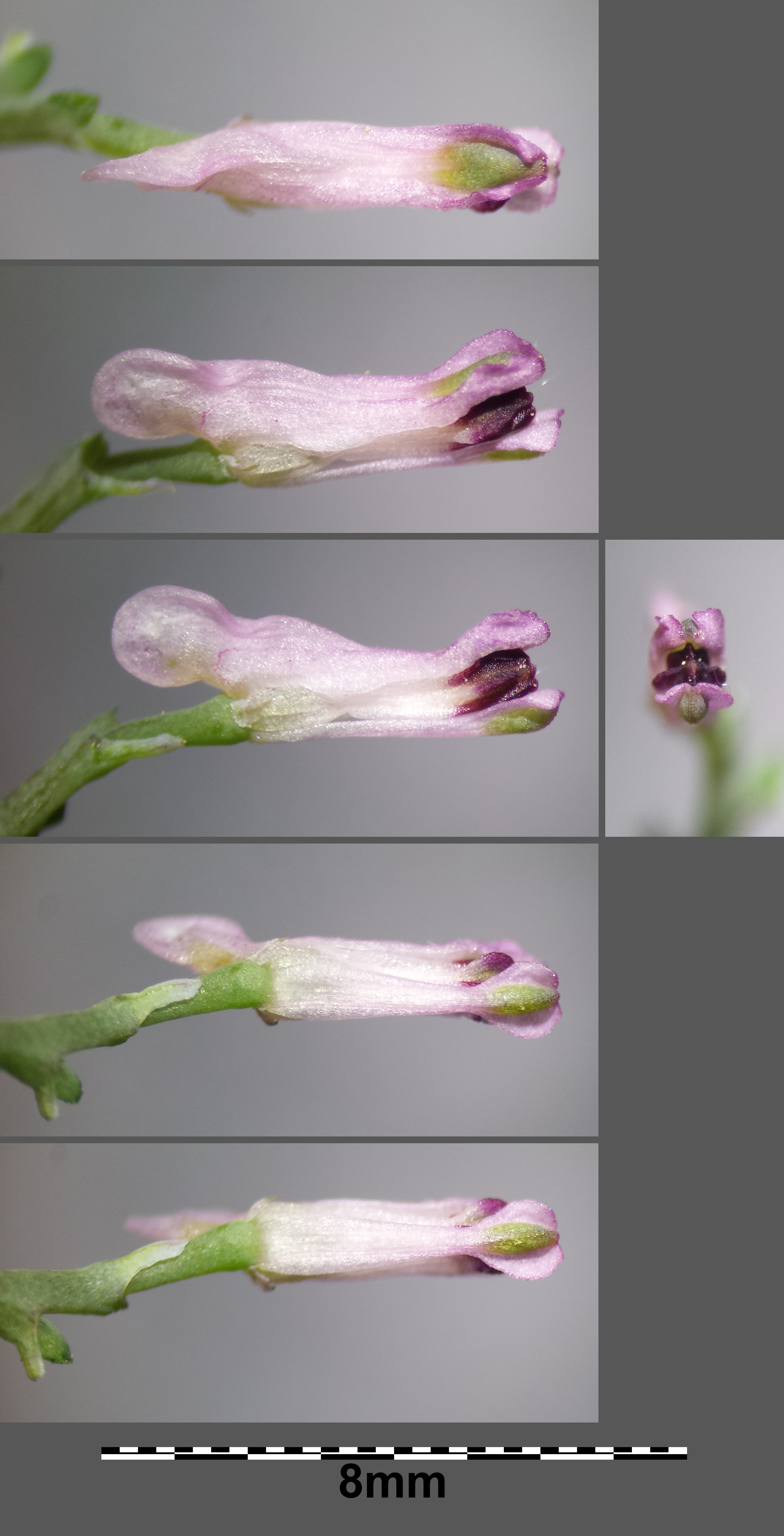 Flower Taxonym: Fumaria vaillantii ss Fischer et al. EfÖLS 2008 ISBN 978-3-85474-187-9 Location: Grillenberg near Niederhollabrunn, district Korneuburg, Lower Austria - ca. 350 m a.s.l. Habitat: fallow land